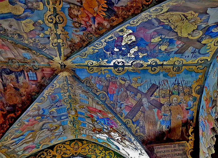 Ceiling of the crucifixion Station chapel in the Sepulcher Church